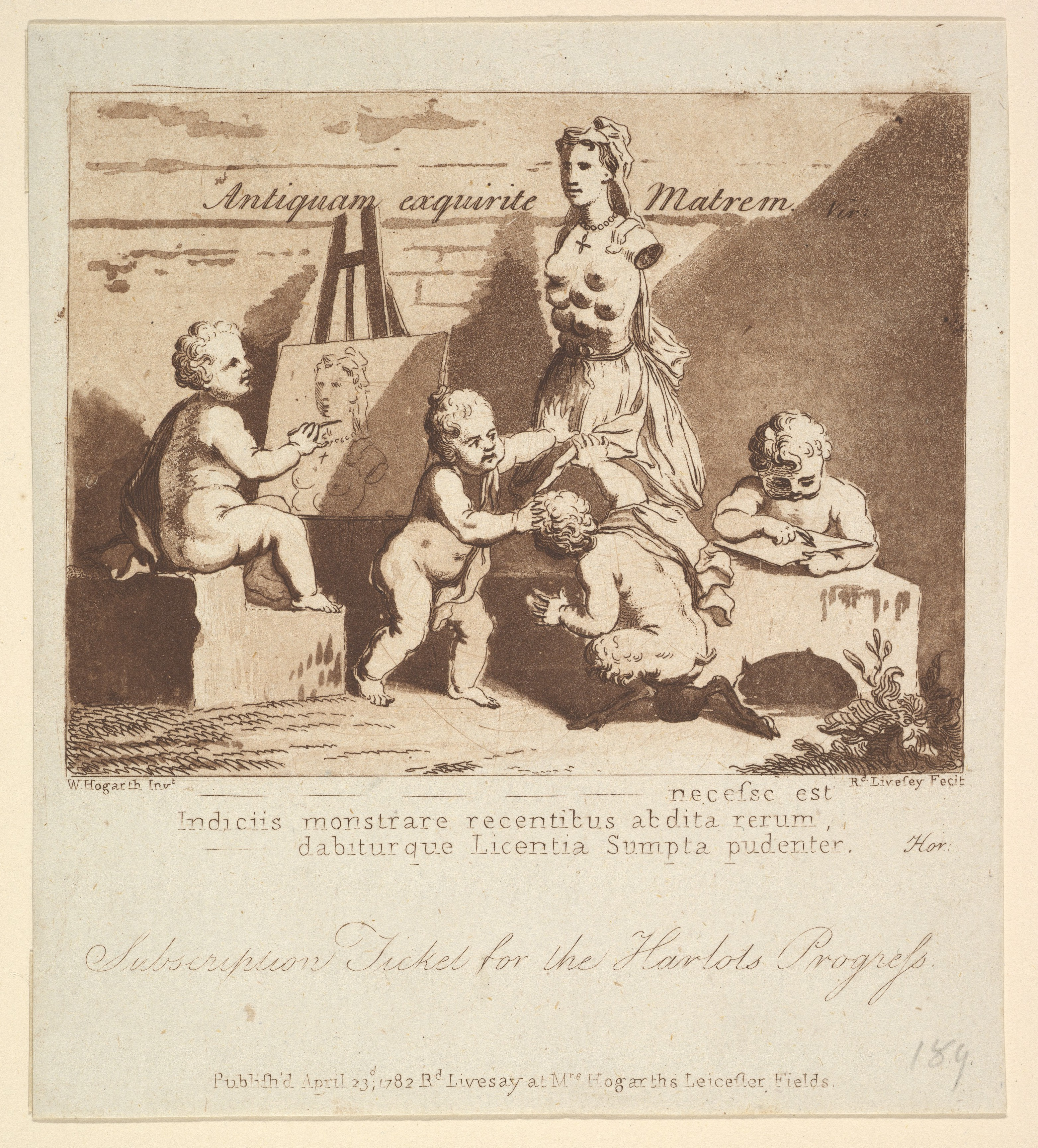 Print; Prints